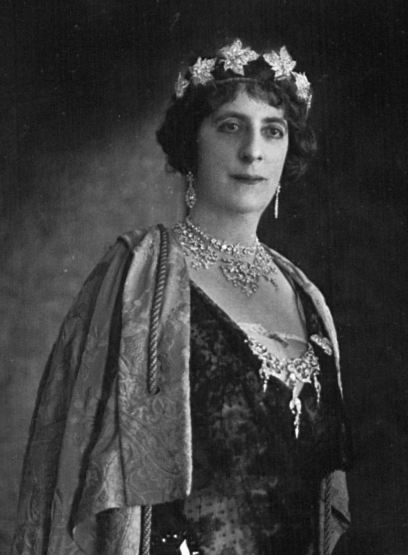 Lady Byng